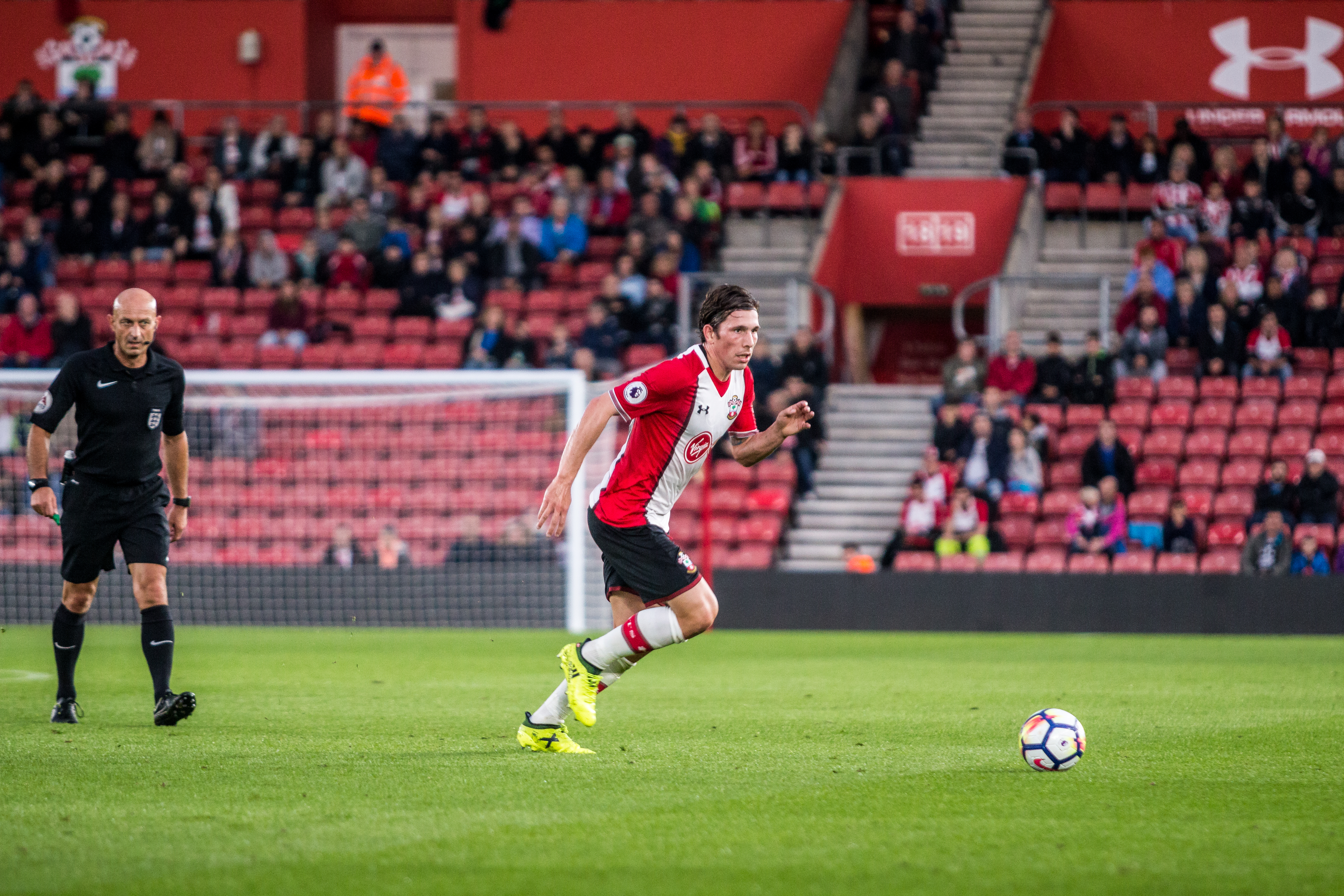 Pre-season friendly Wednesday 2 August 2017 Image by Lewis Commons